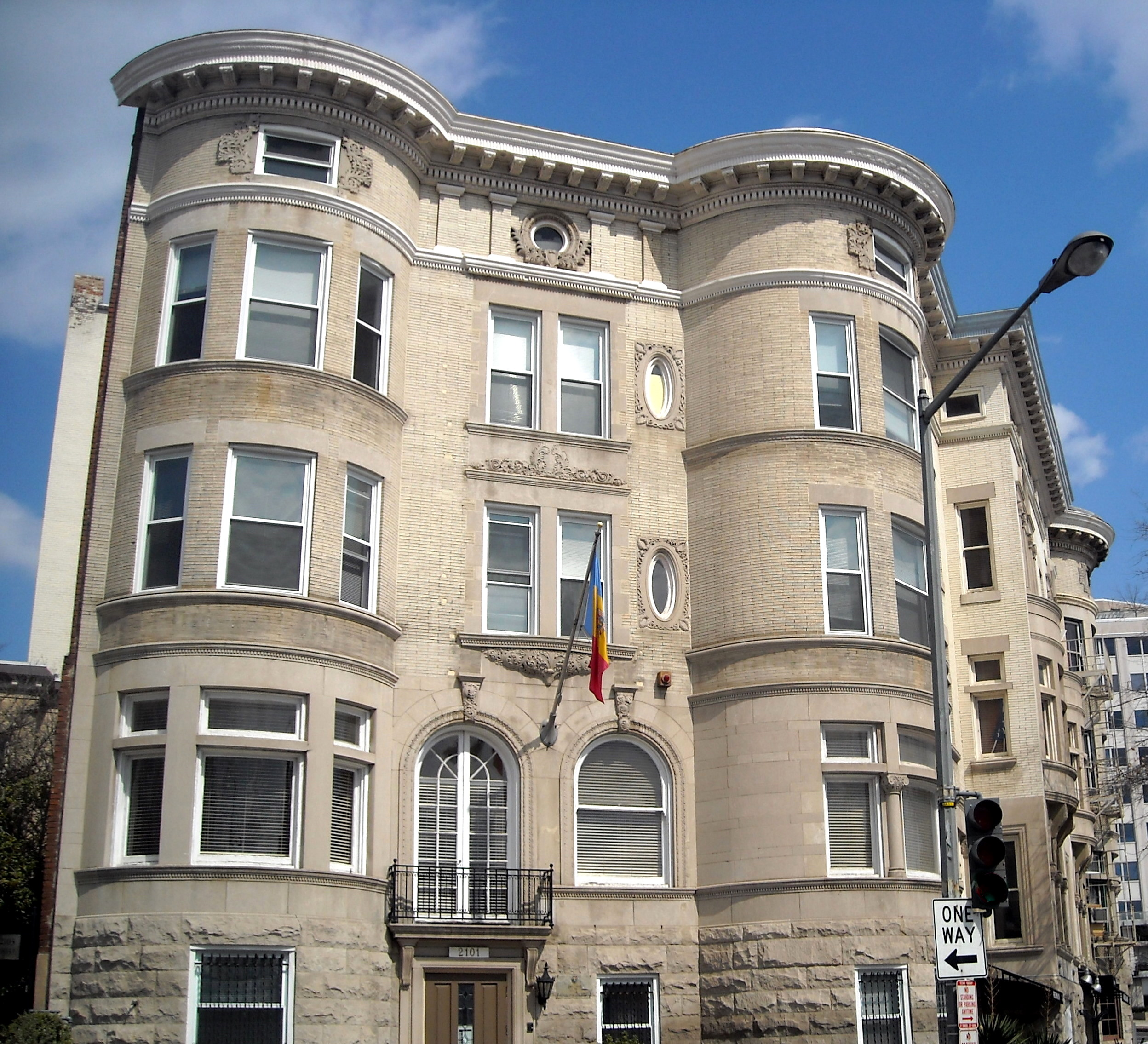 The Embassy of Moldova (since 1998; formerly located at 1511 K Street, Northwest) located at 2101 S Street, NW in the Sheridan-Kalorama neighborhood of Washington, D.C. Constructed in 1898, the Beaux-Arts building originally served as the private residence of U.S. Agriculture Secretary James Wilson. In addition to Wilson, notable owners of the building have included the Ottoman Empire (offices of the Turkish Legation), Persian Empire (offices of the Persian Legation during the Qajar dynasty), Assistant Secretary of the Treasury James H. Moyle, Director of the U.S. Reclamation Service Frederick Haynes Newell, economist Alfred E. Kahn, the Scientific Time Sharing Corporation (headquarters), Governor of the U.S. Postal Service Timothy Lionel Jenkins, and American Visions magazine (headquarters). The embassy is a contributing property to the Sheridan-Kalorama Historic District. Its 2009 property value is $1,301,060.